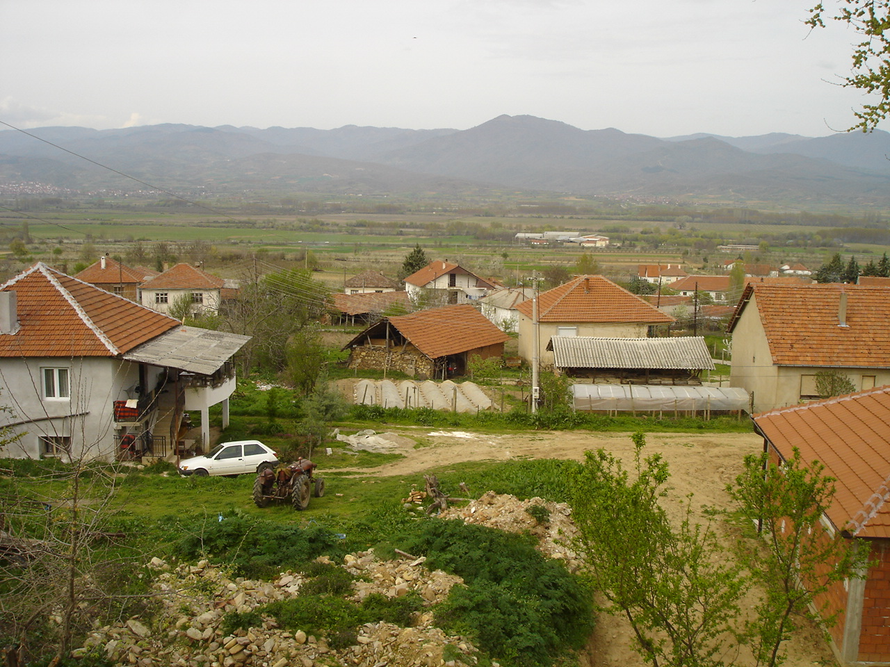 View of the village Suldurci, near Radoviš, Macedonia